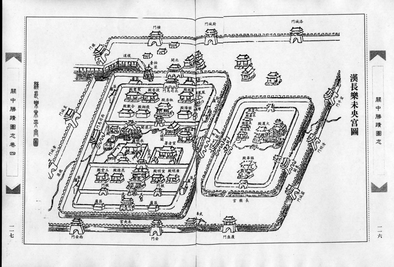 Bi Yuan